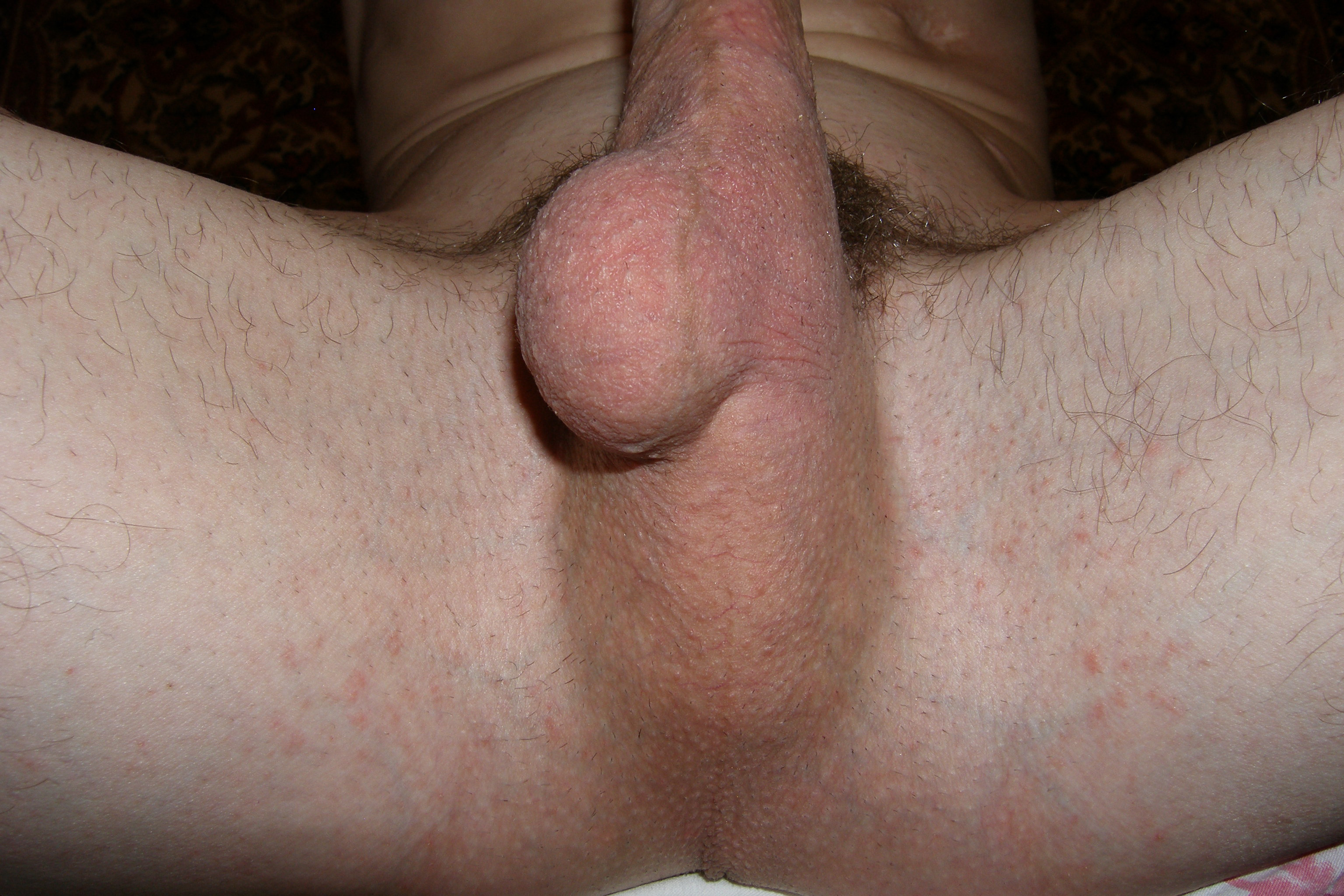 Monorchism